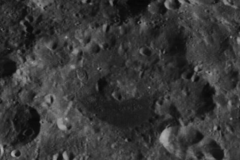 Oblique view of Bolyai crater, on the far side of the moon, facing roughly south.